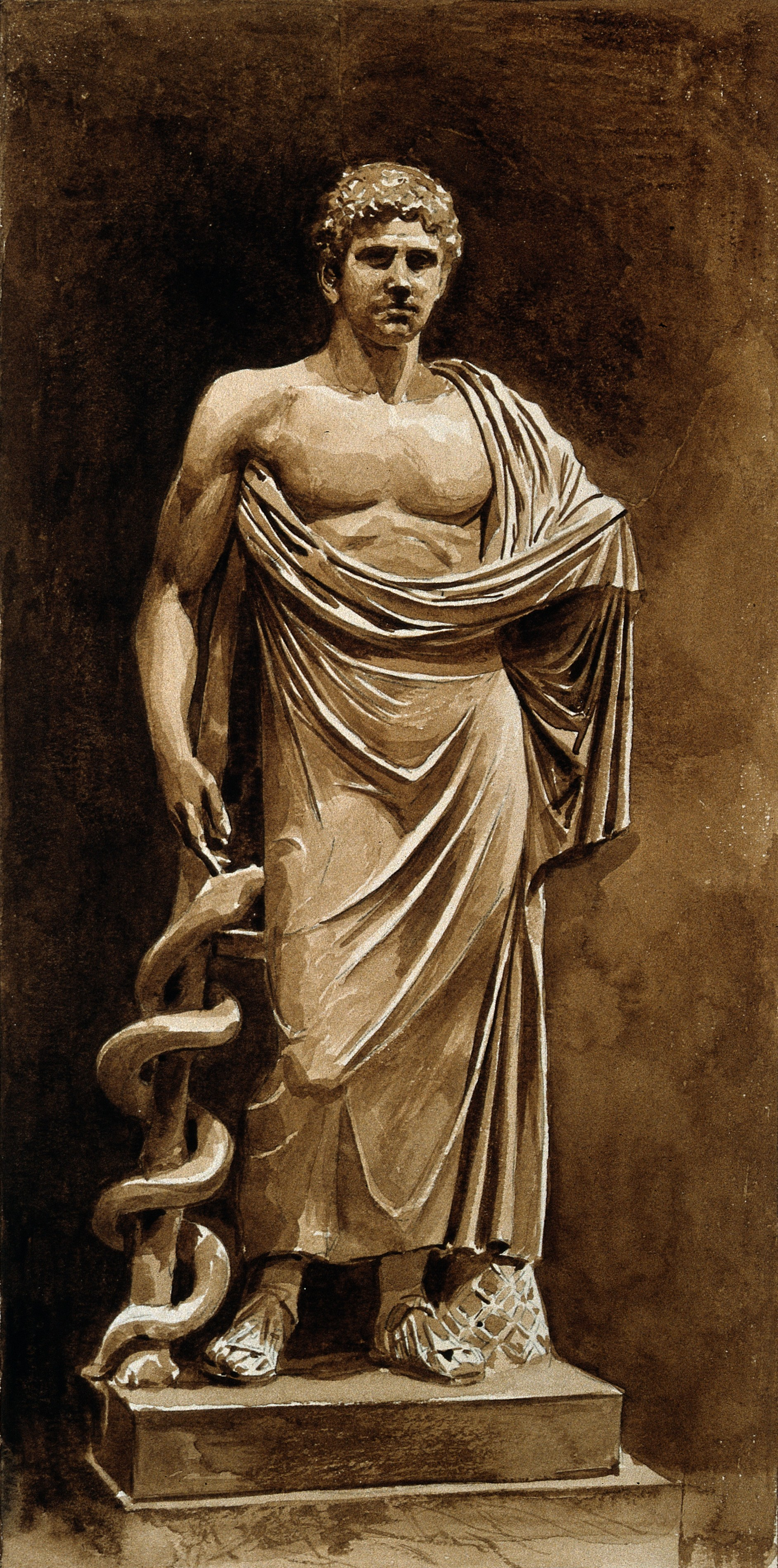 Antonius Musa. Bistre wash with pencil underdrawing. Iconographic Collections Keywords: Antonius Musa; portrait drawings